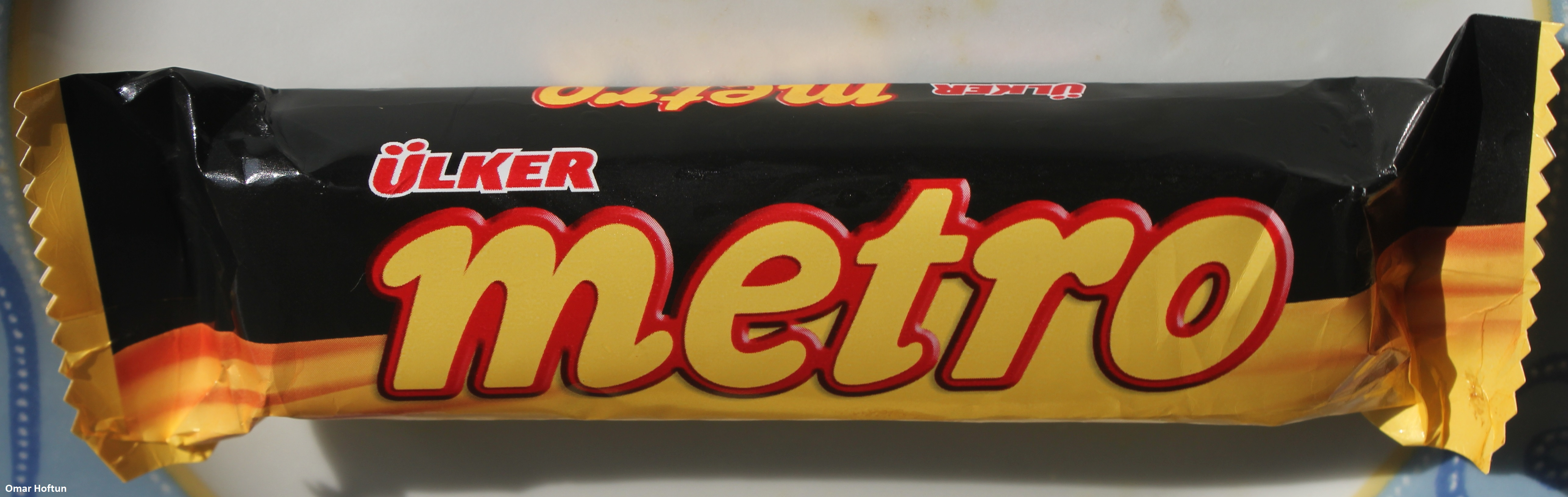 Ülker Metro Chocolate.